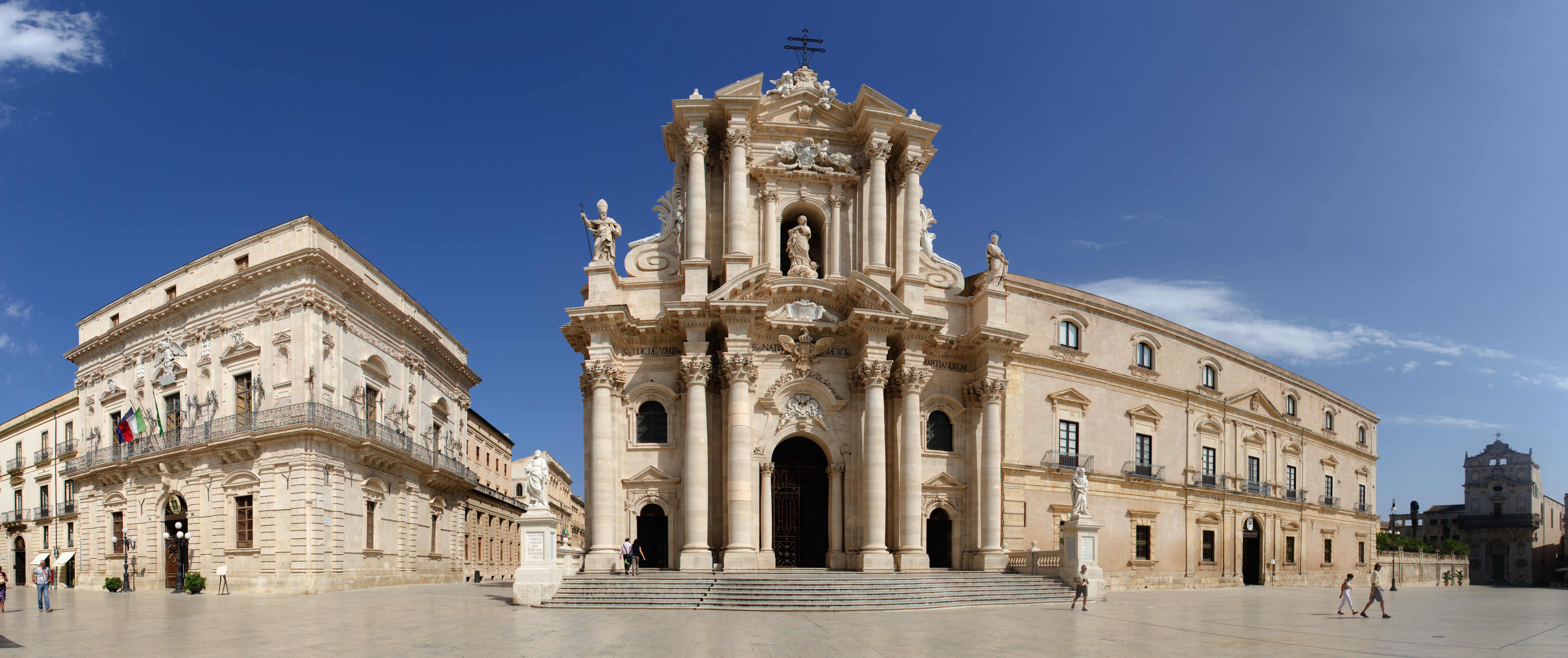 Siracusa cathedral, Sicily